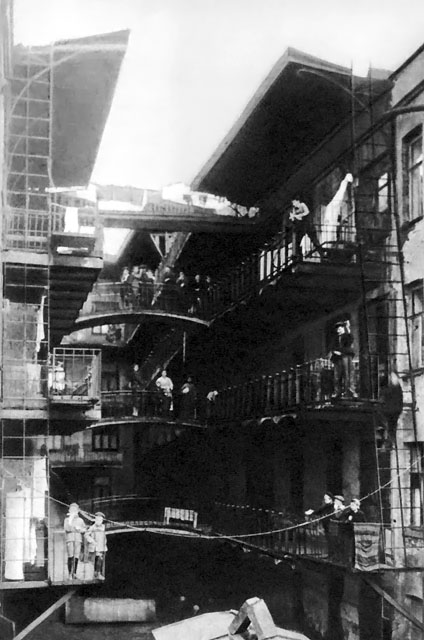 Slums in the Pskovsky lane of Zaryadye district, Moscow, 1909. These high-density tenements had no internal staircases, instead, the tenants used external walkways. In the 1880s-1890s this was the Jewish Ghetto of Moscow: when Jews were prohibited to settle in the city, they crammed up into Zaryadye inns disguised as "business travelers". By the time this photo was taken the ban was lifted. All of these buildings were demolished in the 20th century.